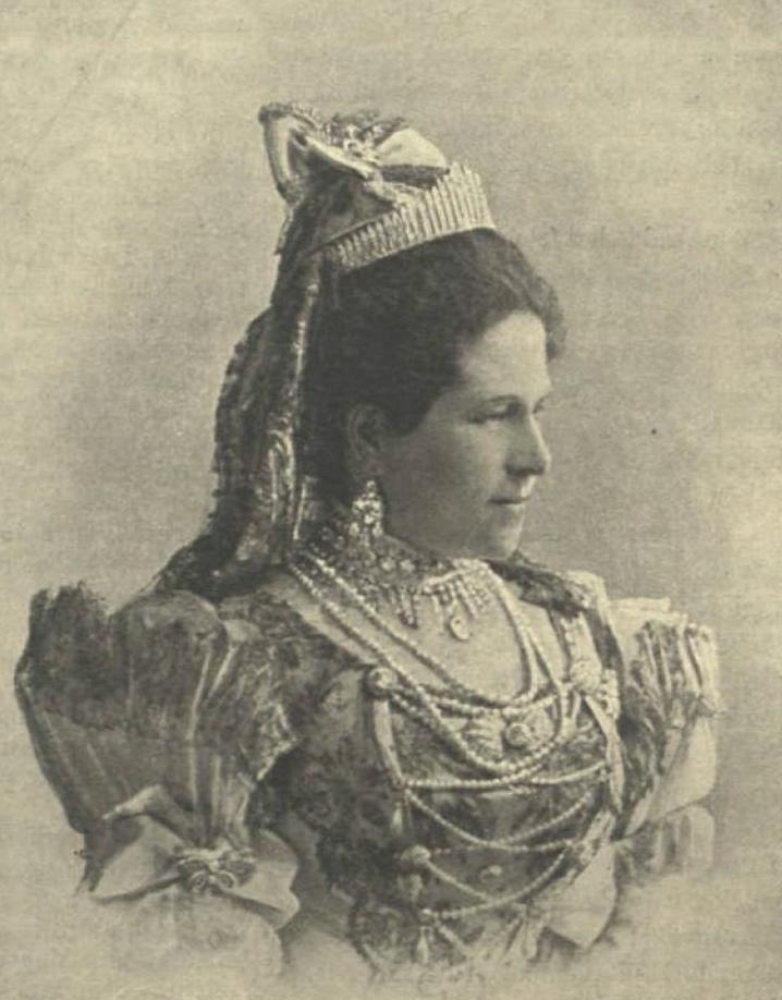 Princess Isabelle of Croy-Dülmen